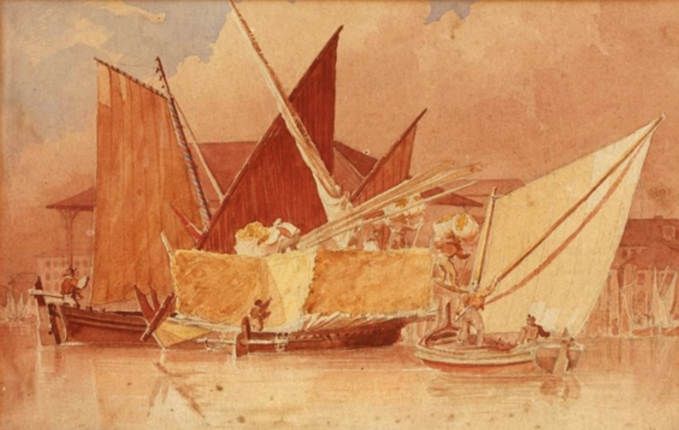 Executed in Portugal about 1832